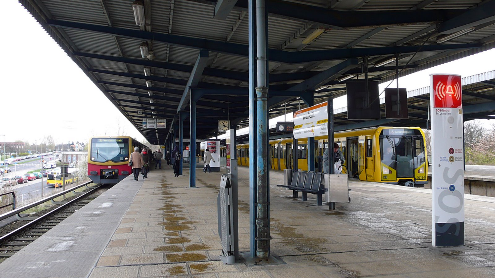 Wuhletal